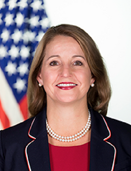 Suzette Kent, Federal Chief Information Officer, 2018 to present